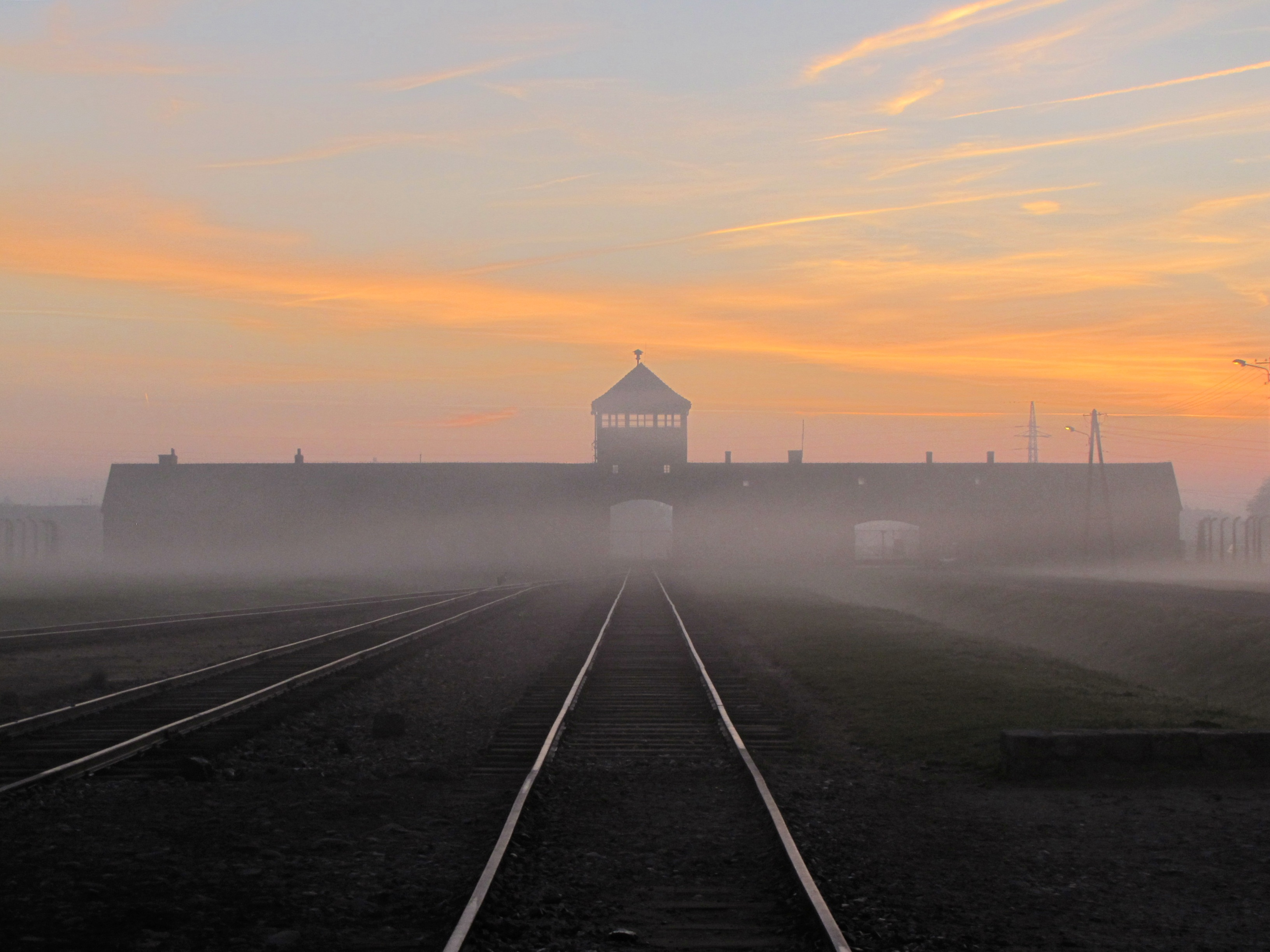 Brzezinka, Auschwitz-Birkenau